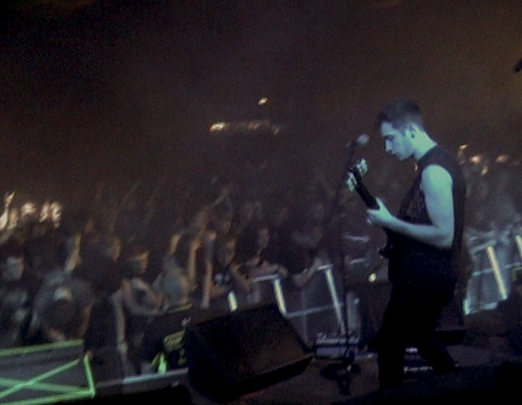 Sylosis Sonisphere 2010